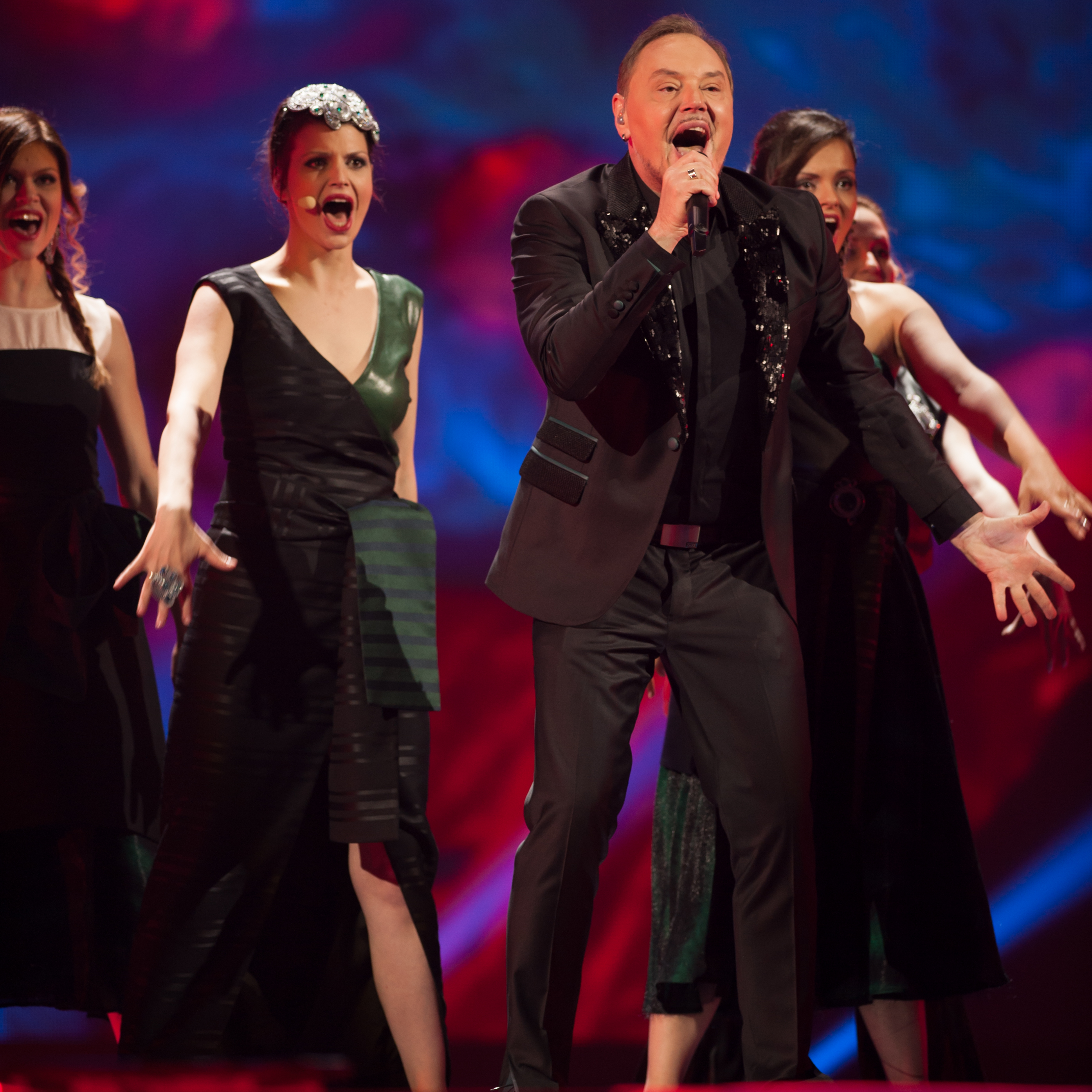 Eurovision Song Contest Vienna 2015: Knez